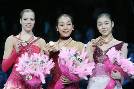 The ladies podium at the 2008 World Championships. From left: Carolina Kostner (2nd), Mao Asada (1st), Kim Yu-Na (3rd).